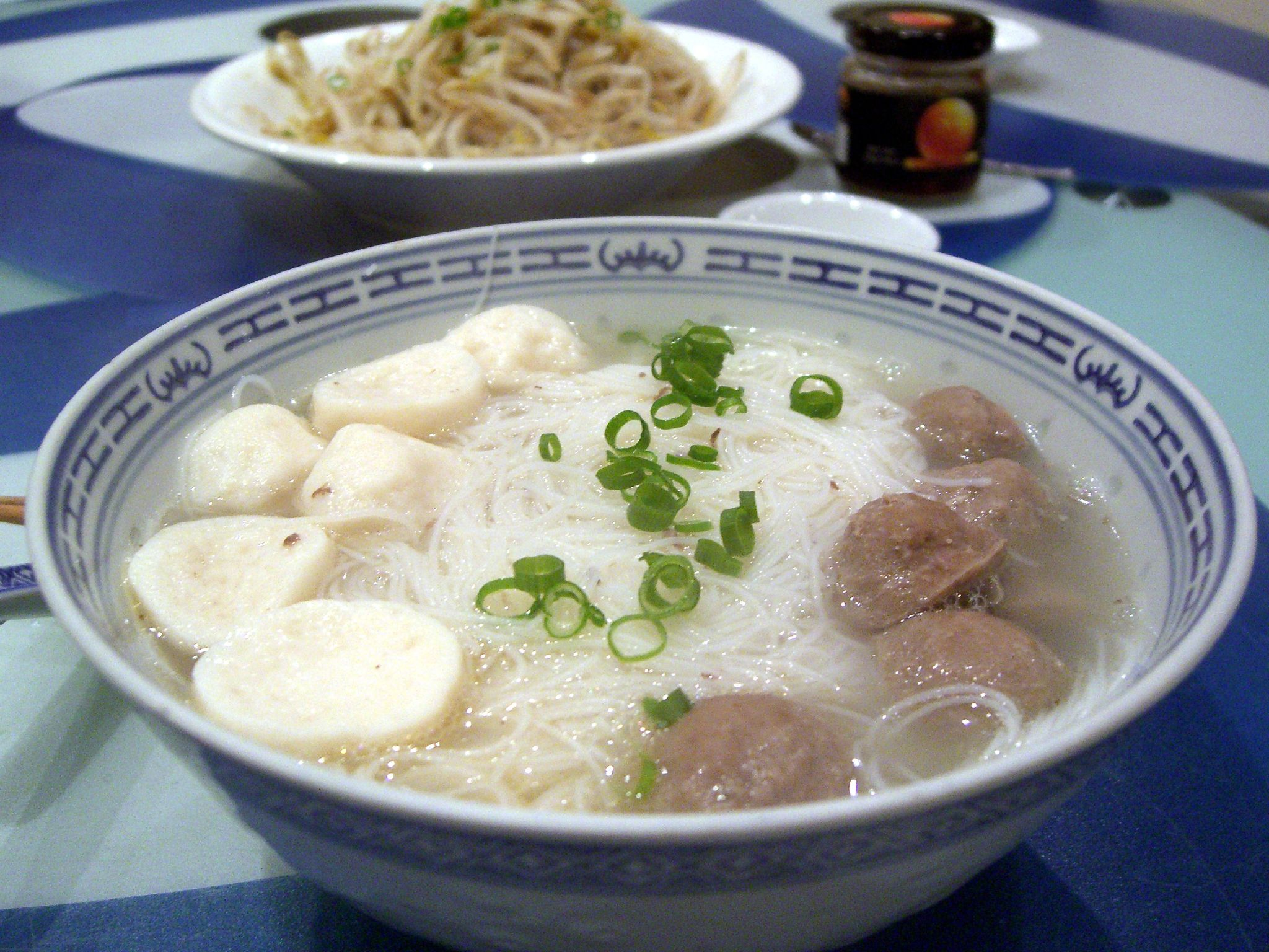 Fishball Beefball fish ball beef ball